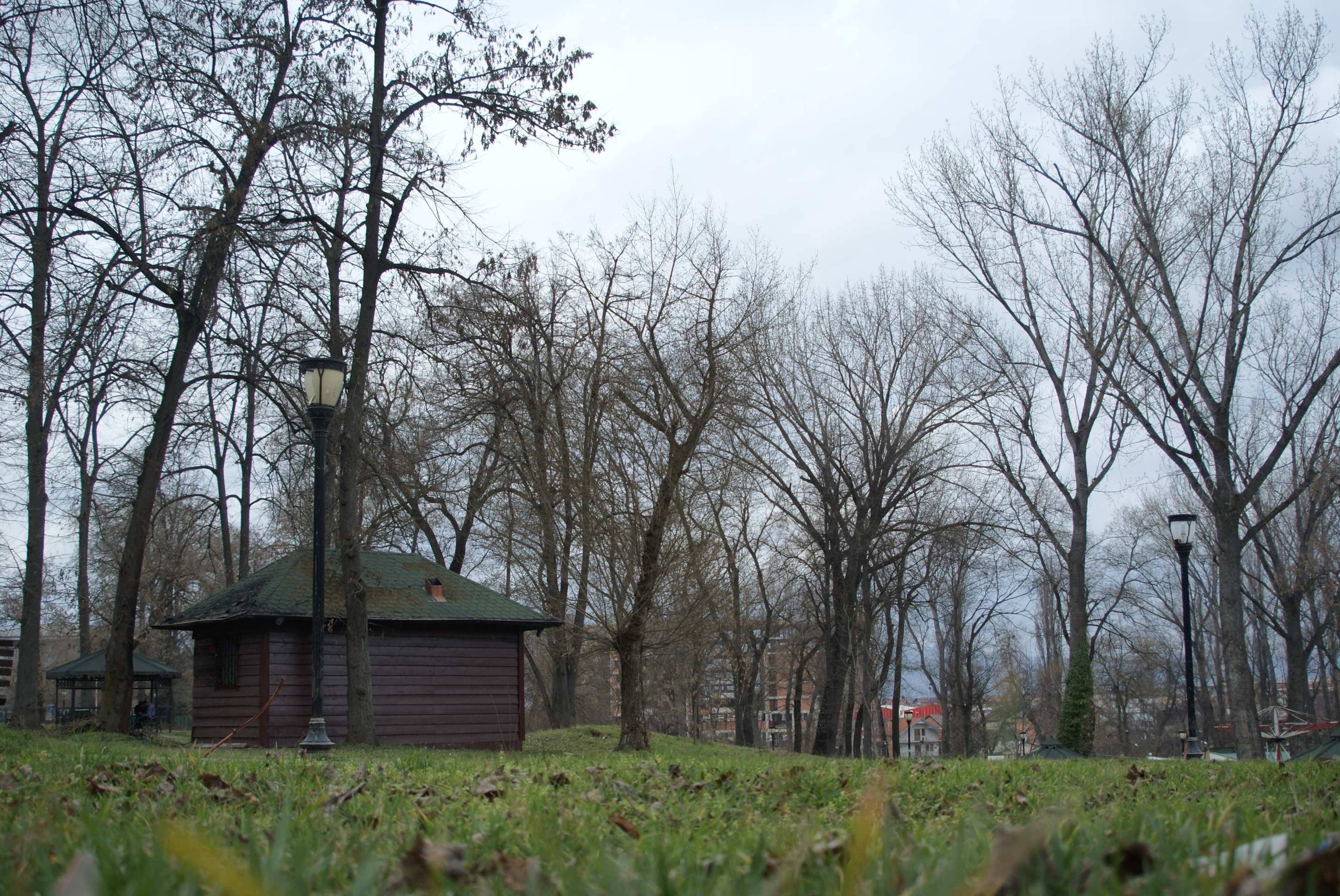 Parku i Qytetit